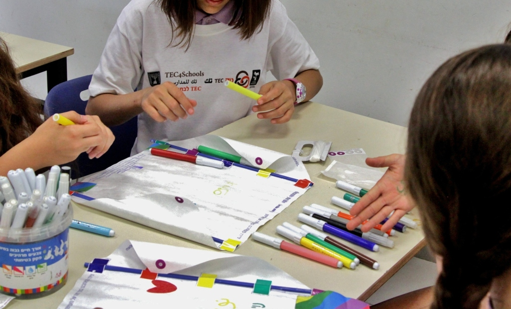 An Arab School from Baqa al GharbiyaA visit in a Jewish school. Preparation kites